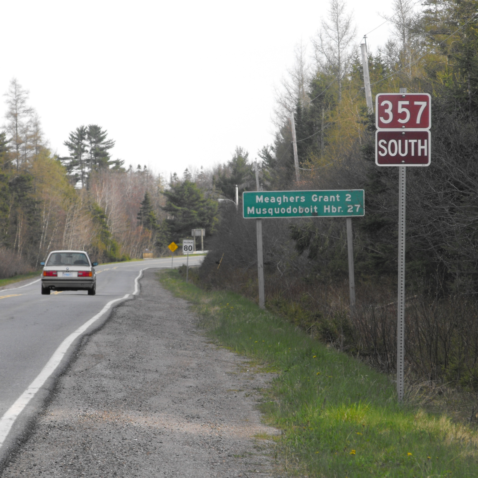 Roadside, Nova Scotia Route 357, Halifax Regional Municipality